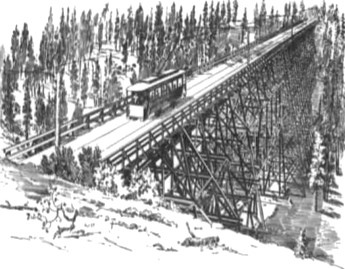 A streetcar crossing over Latah Creek in Spokane, Washington